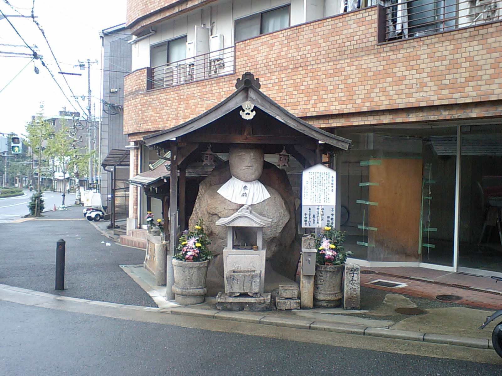 Koyasu kannon - Buddhiststatues in Kyoto Kitashirakawa